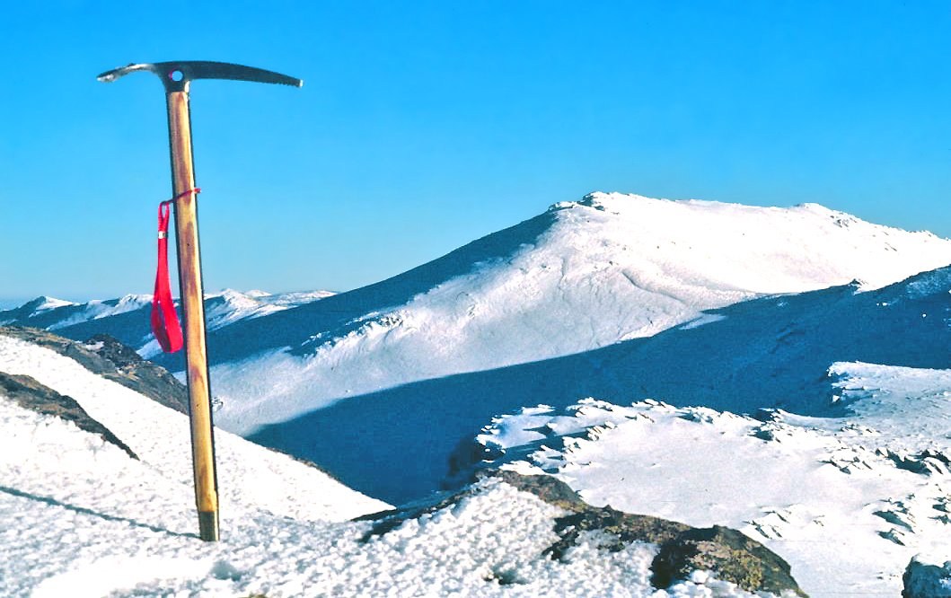 La Buitrera Peak from Cerro Gordo; Ayllón Range. Segovia, Castile and León, Spain